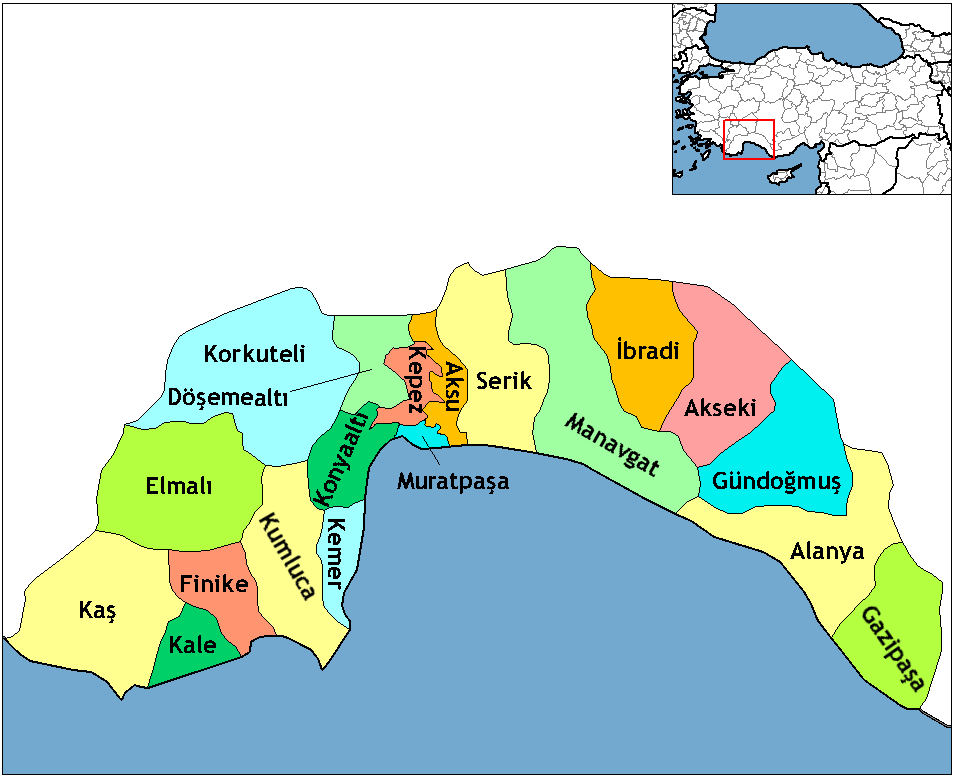 Map of the districts of Antalya province in Turkey. Created by Rarelibra 16:59, 1 December 2006 (UTC) for public domain use, using MapInfo Professional v8.5 and various mapping resources. Edited by One Homo Sapiens Corrected text where İ,Ş,ı,ğ,or ş occurs in name. Source: [statoids-com]. Increased font size and enhanced color differences among adjacent districts. (beton kesme antalya)